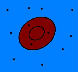 chem 114A